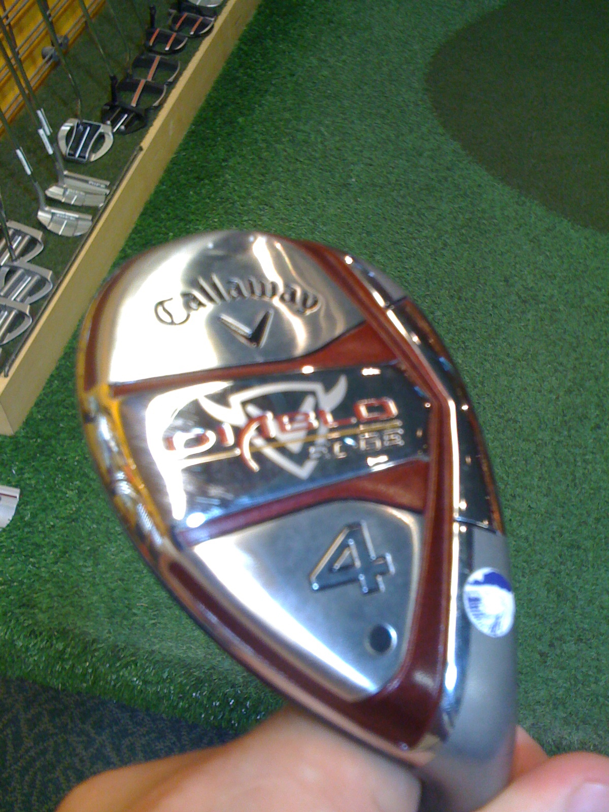 Callaway Diablo edge 4 hybrid